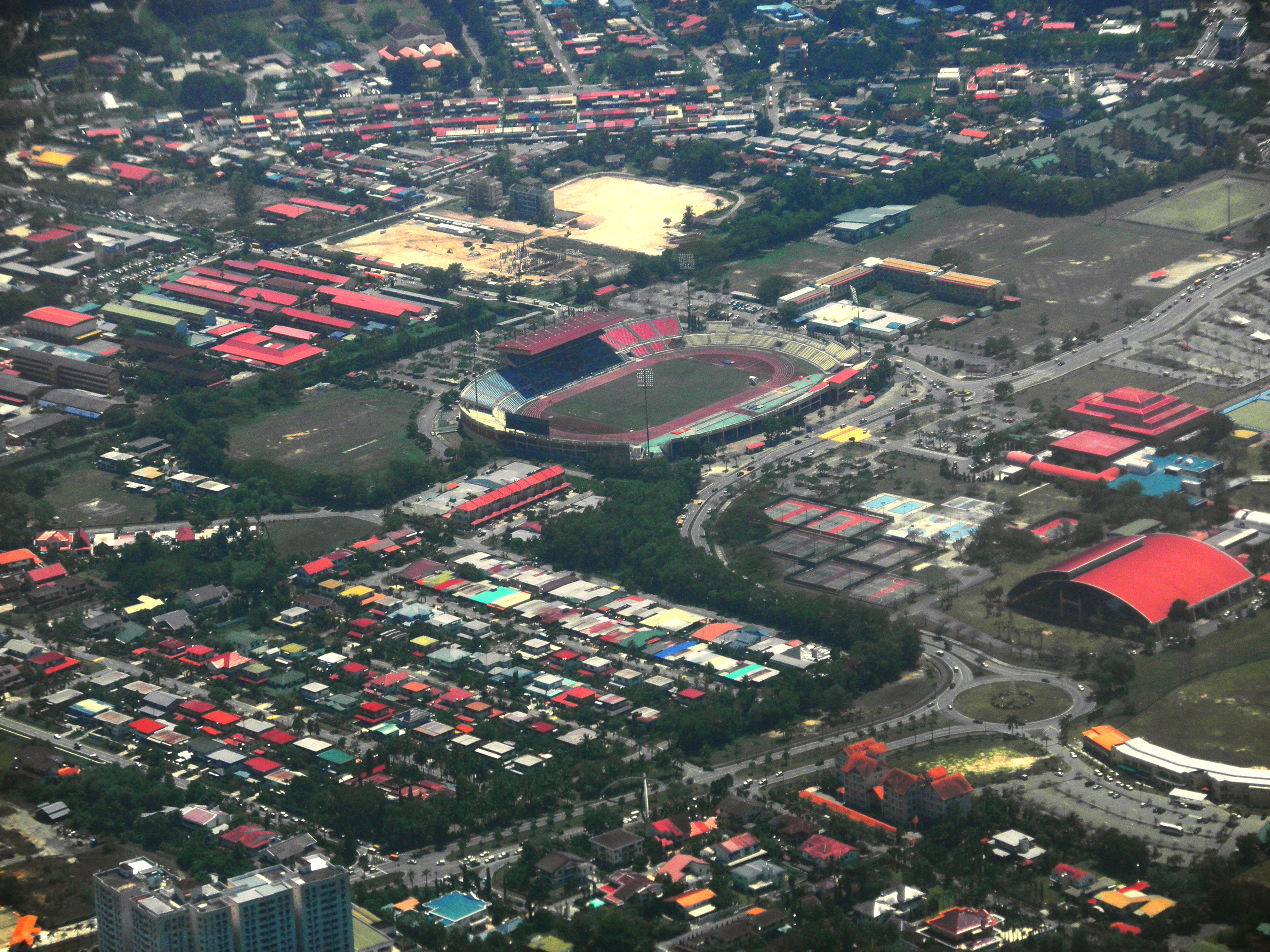 Once again we were off to Australia for holidays. However when we left it was a little hazy. This time, I tried to zoom into a specific landmark or place instead of getting an unzoomed view. You can see a plot of land being cleared for development near the stadium. It used to be a jungle.